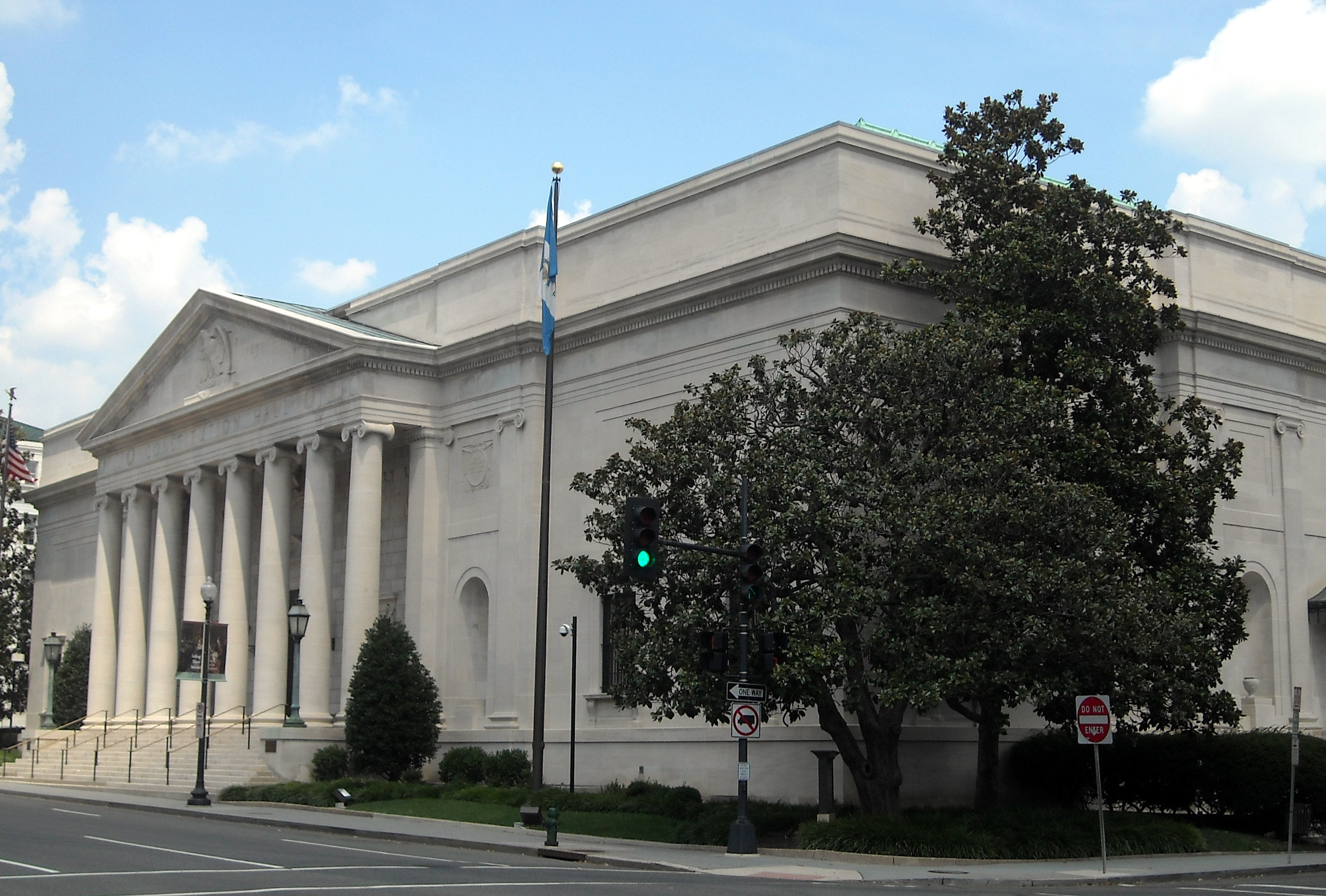 Daughters of the American Revolution Constitution Hall at 311 18th Street, NW in Washington, D.C. The building was constructed in 1929 and is a National Historic Landmark.